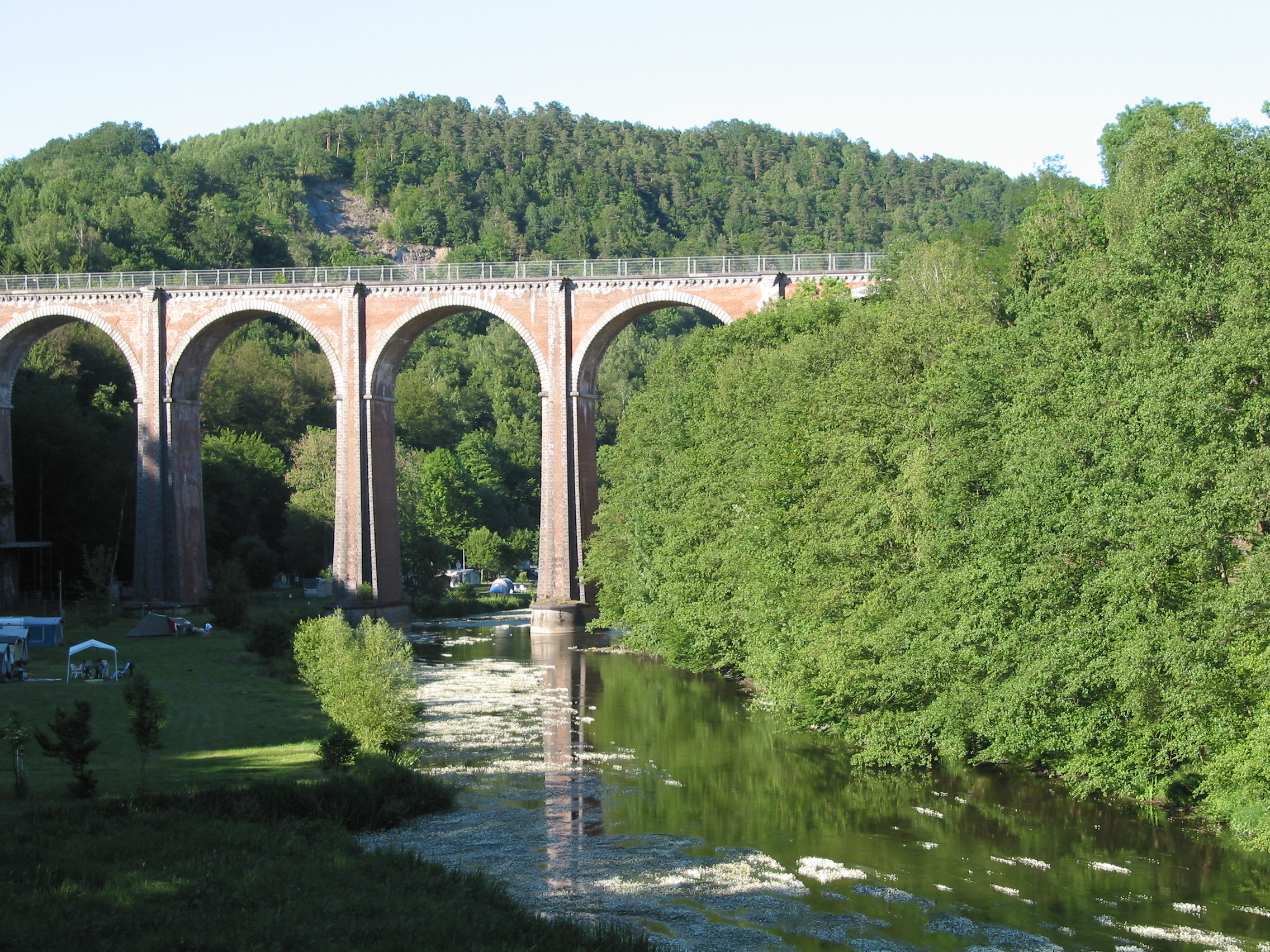 Herbeumont (Belgium), the viaduct on the Semois river.